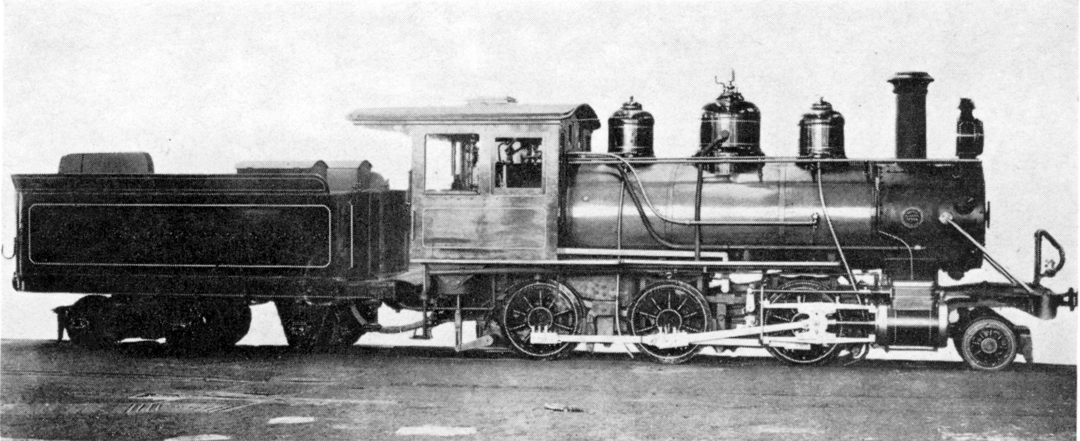 Natal Government Railways Class I no. 513 (2-6-0), ex Zululand Railway Company no. 2